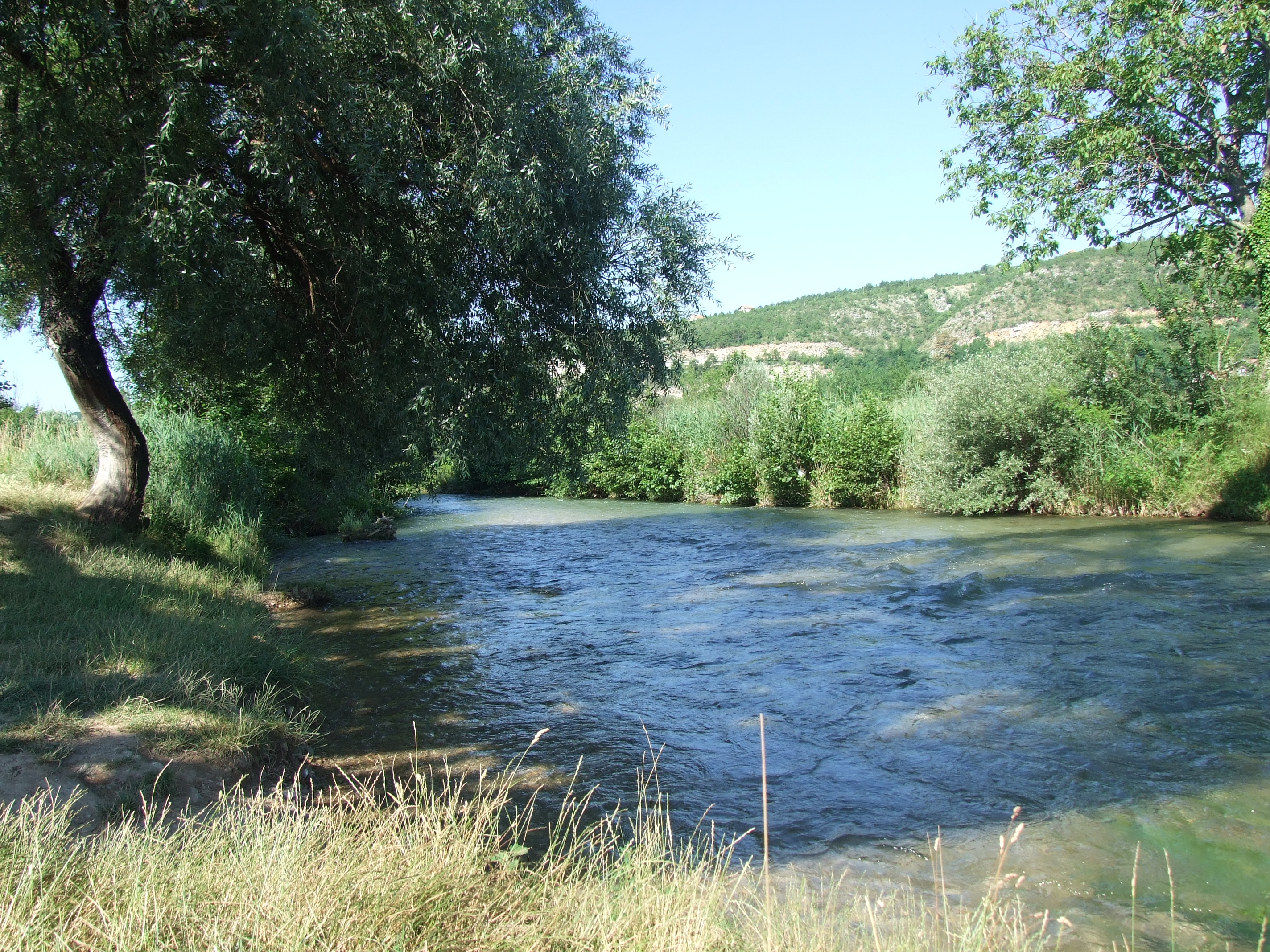 River Butiznica in Knin, Croatia.